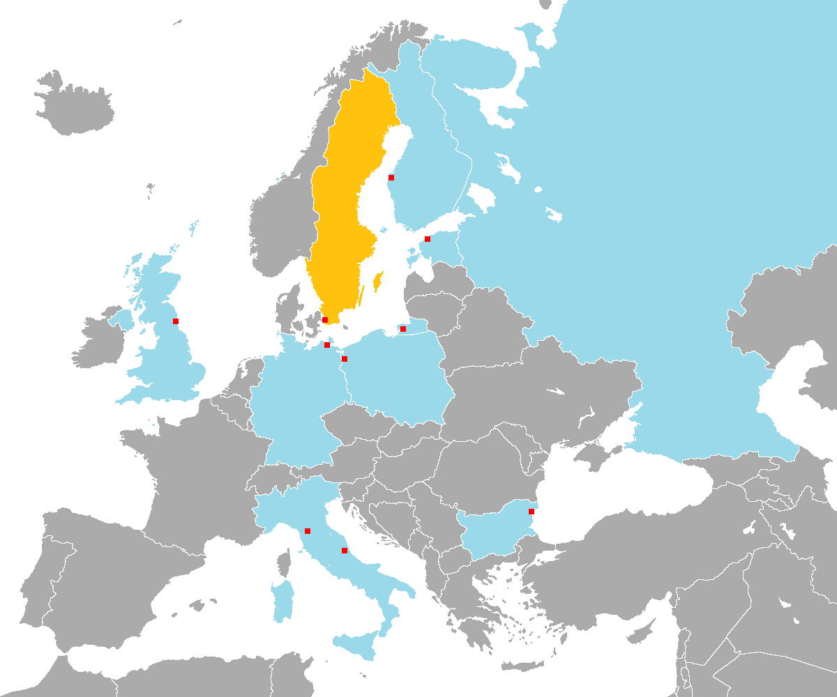 map of malmös friend towns